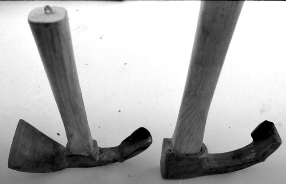 This file was made by B. M. Askholm, Please credit this: B. Askholm foto. An email to B. Mathias at baskholm(--) would be appreciated too.